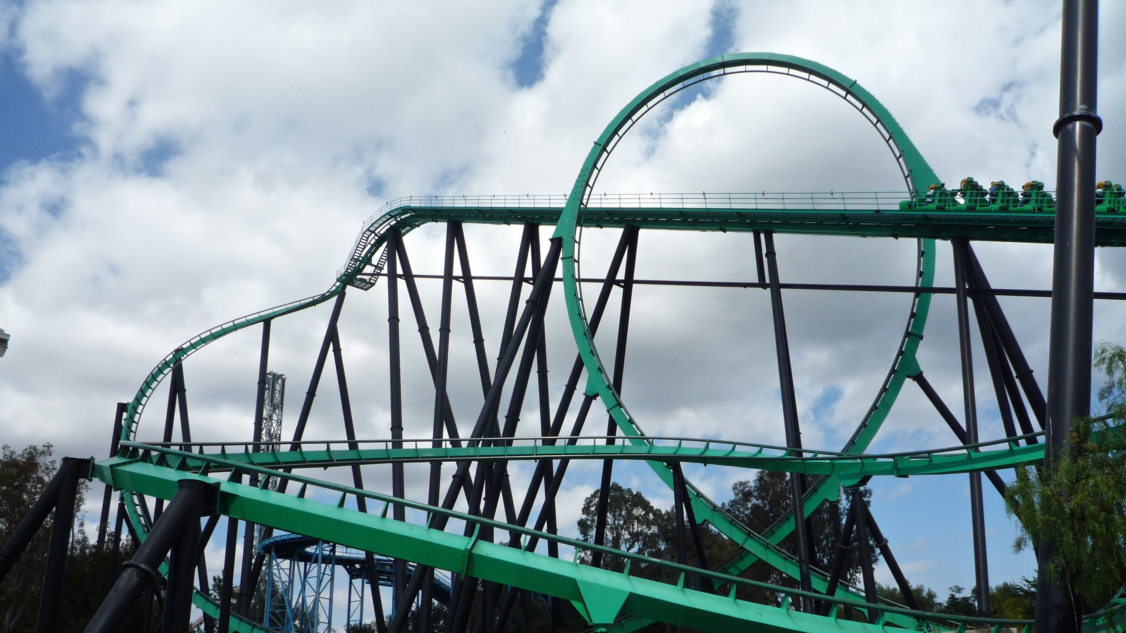 Six Flags Magic Mountain - Riddler's Revenge Ride